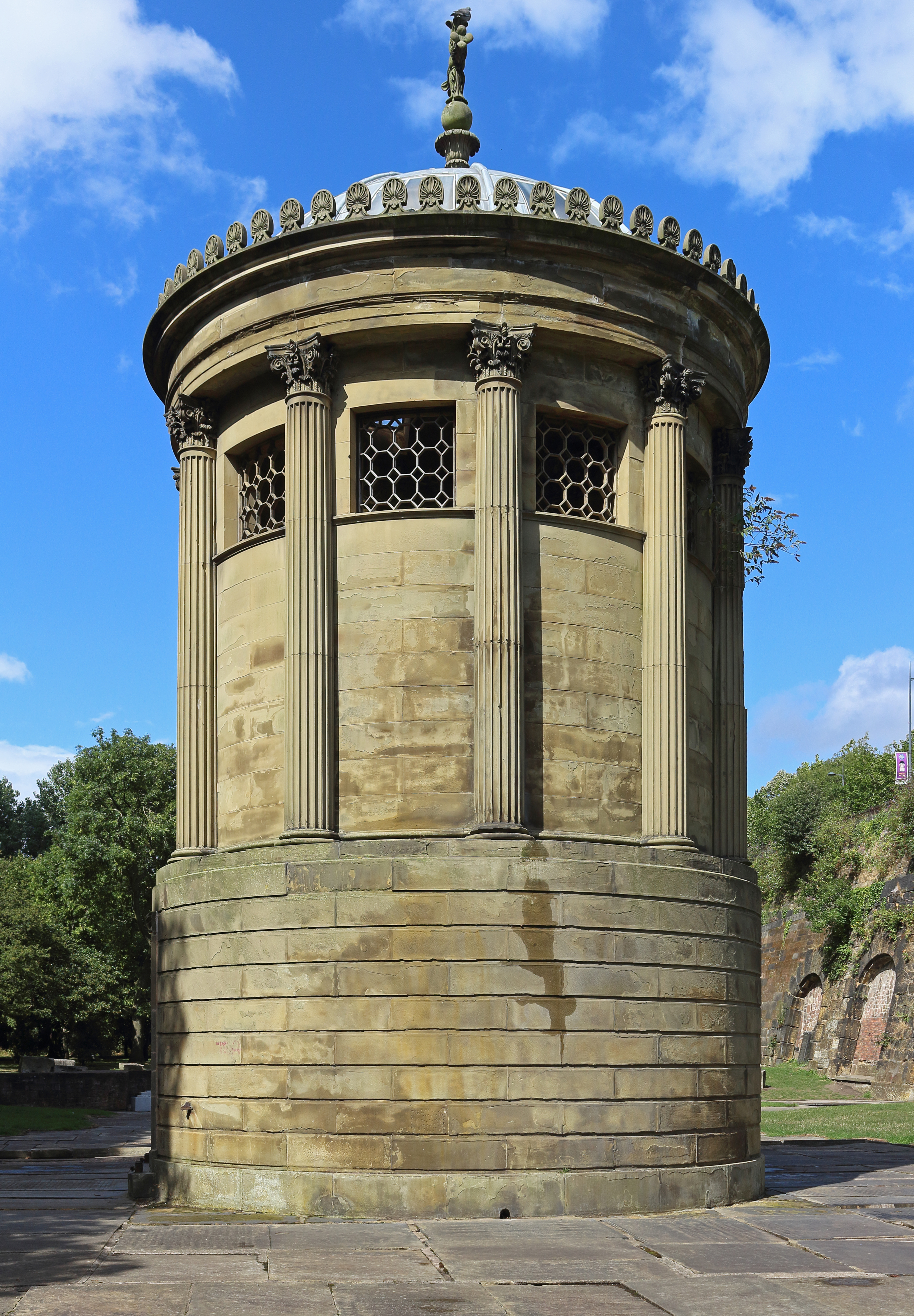 The south side